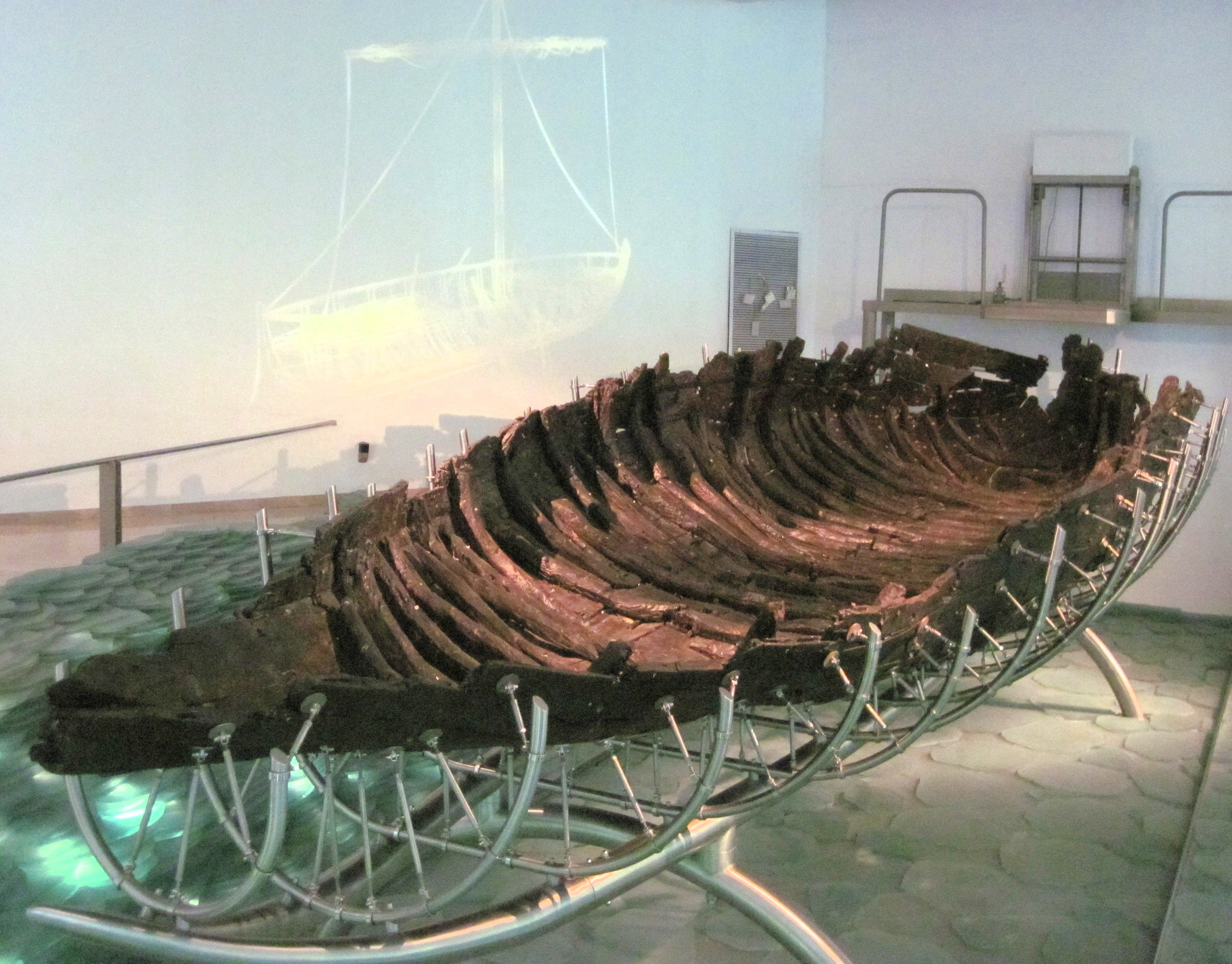 The Sea of Galilee Boat or "Jesus Boat" on a metal frame in the Yigal Alon Museum in Kibbutz Ginosar, Tiberias, Israel